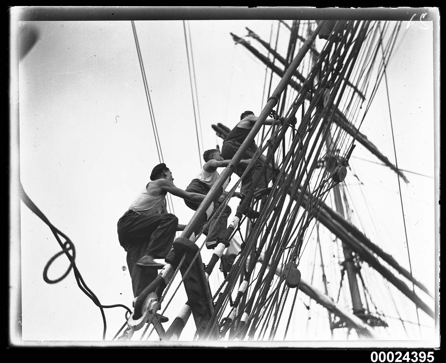 This image depicts sailors preparing the rigging and sails of the four-masted barque MAGDALENE VINNEN. The vessel was built in 1921 in Kiel, Germany for F A Vinnen and Company in Bremen. On 27 February 1933, under the command of Captain Lorenz Peters, MAGDALENE VINNEN sailed into Sydney Harbour. The masts were too tall to allow the vessel to pass under the Harbour Bridge to be berthed in Pyrmont, so it was moved to Number 2 wharf in Woolloomooloo. The barque was loaded with almost 16,000 bales of wool, the fourth largest shipment to have left Sydney, before it sailed the record-breaking 82-day voyage for Falmouth, England. The barque visited Australia again in 1935, with its cargo being wheat, lifted from Port Broughton in South Australia. The following year, the vessel was sold to Norddeutscher Lloyd, Bremen, renamed KOMMODORE JOHNSEN and used as a cargo carrier and sail-training ship. In 1945, the ship was awarded to the Soviet Union as war compensation and renamed SEDOV. When it was first built, it was the largest auxiliary barque in the world. To this day, it is still in operation and in 2011, it retained its ranking as the largest tall ship in the world. This photo is part of the Australian National Maritime Museum’s Samuel J. Hood Studio collection. Sam Hood (1872-1953) was a Sydney photographer with a passion for ships. His 60-year career spanned the romantic age of sail and two world wars. The photos in the collection were taken mainly in Sydney and Newcastle during the first half of the 20th century. The ANMM undertakes research and accepts public comments that enhance the information we hold about images in our collection. This record has been updated accordingly. Photographer: Samuel J. Hood Studio Collection Object no. 00024395